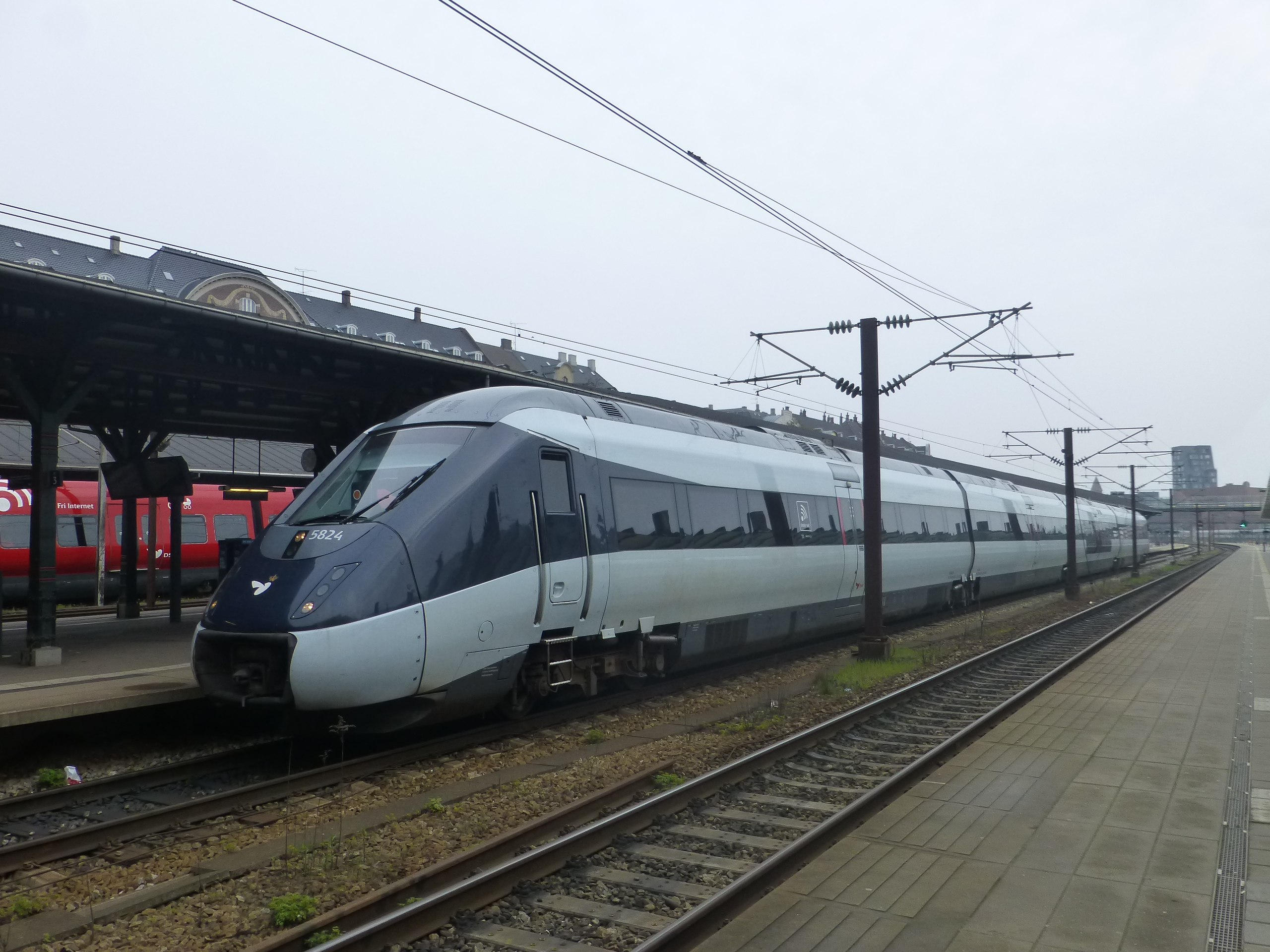 Diesel multiple unit DSB IC4 24 at Østerport Station in Copenhagen.